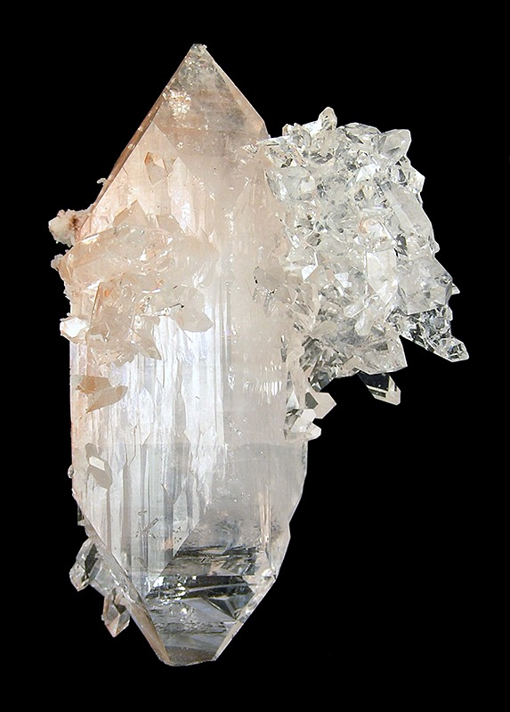 Apophyllite-(KF) Locality: Jalgaon District, Maharashtra, India (Locality at ) Size: small cabinet, 7.5 x 4.7 x 3.2 cm Gemmy Fluorapophyllite This bejeweled, doubly terminated, transparent, colorless to light pink, fluorapophyllite crystal measures 7.5 cm in length. It is enhanced by the sparkling cluster of small attached fluorapophyllite crystals.Floater - complete all around! SPARKLES INCREDIBLY - PROBABLY THE SINGLE MOST SPARKLY, BRIGHT, JEWEL-LIKE APOPHS I HAVE SEEN !